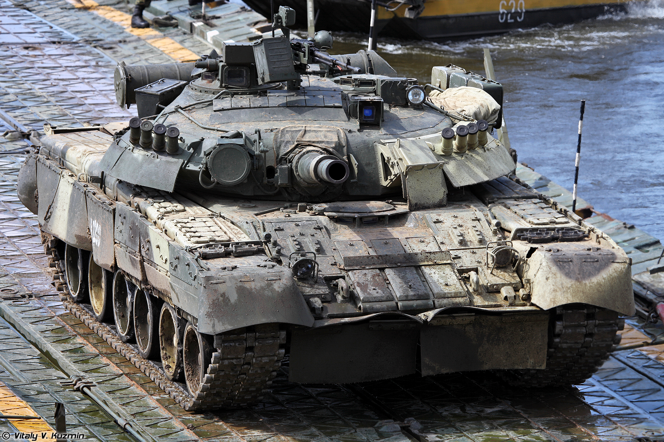 Т-80У (T-80U main battle tank)